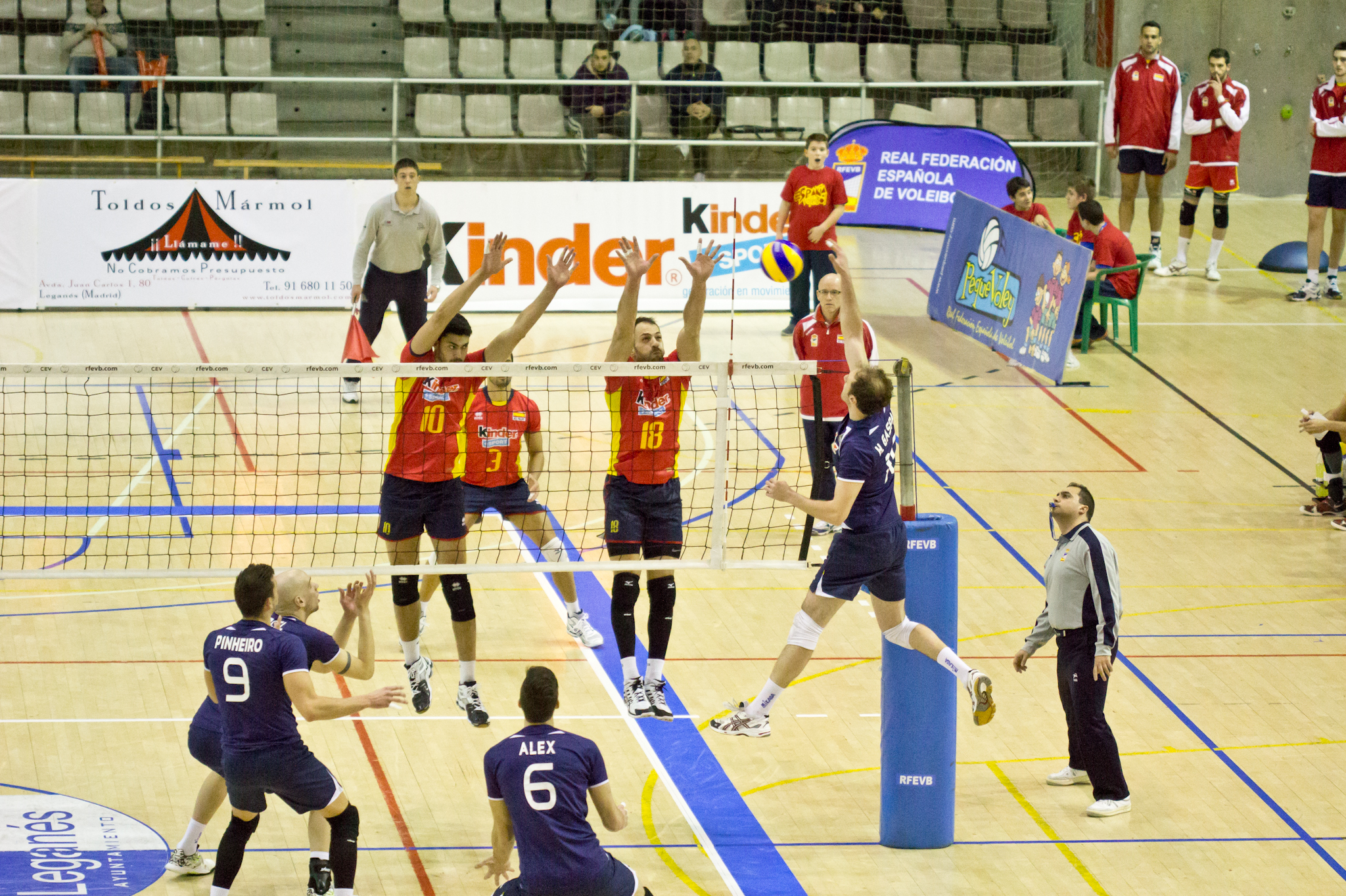 Spain vs Portugal volleyball game in Leganés, Spain.